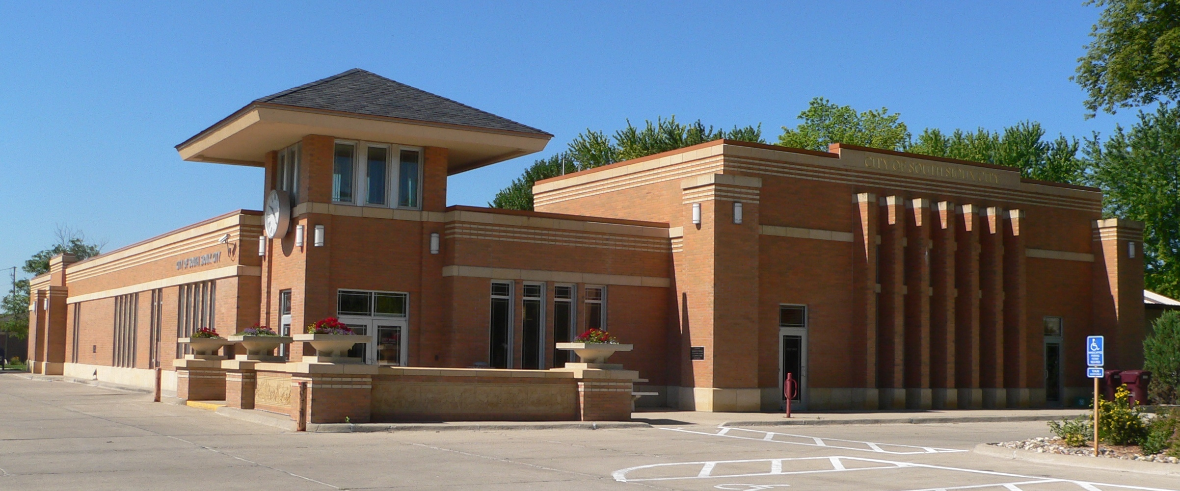 City hall in South Sioux City, Nebraska; seen from the northeast. The building was constructed in 2003 (see photo at File:South Sioux City, Nebraska city hall plaque.JPG).